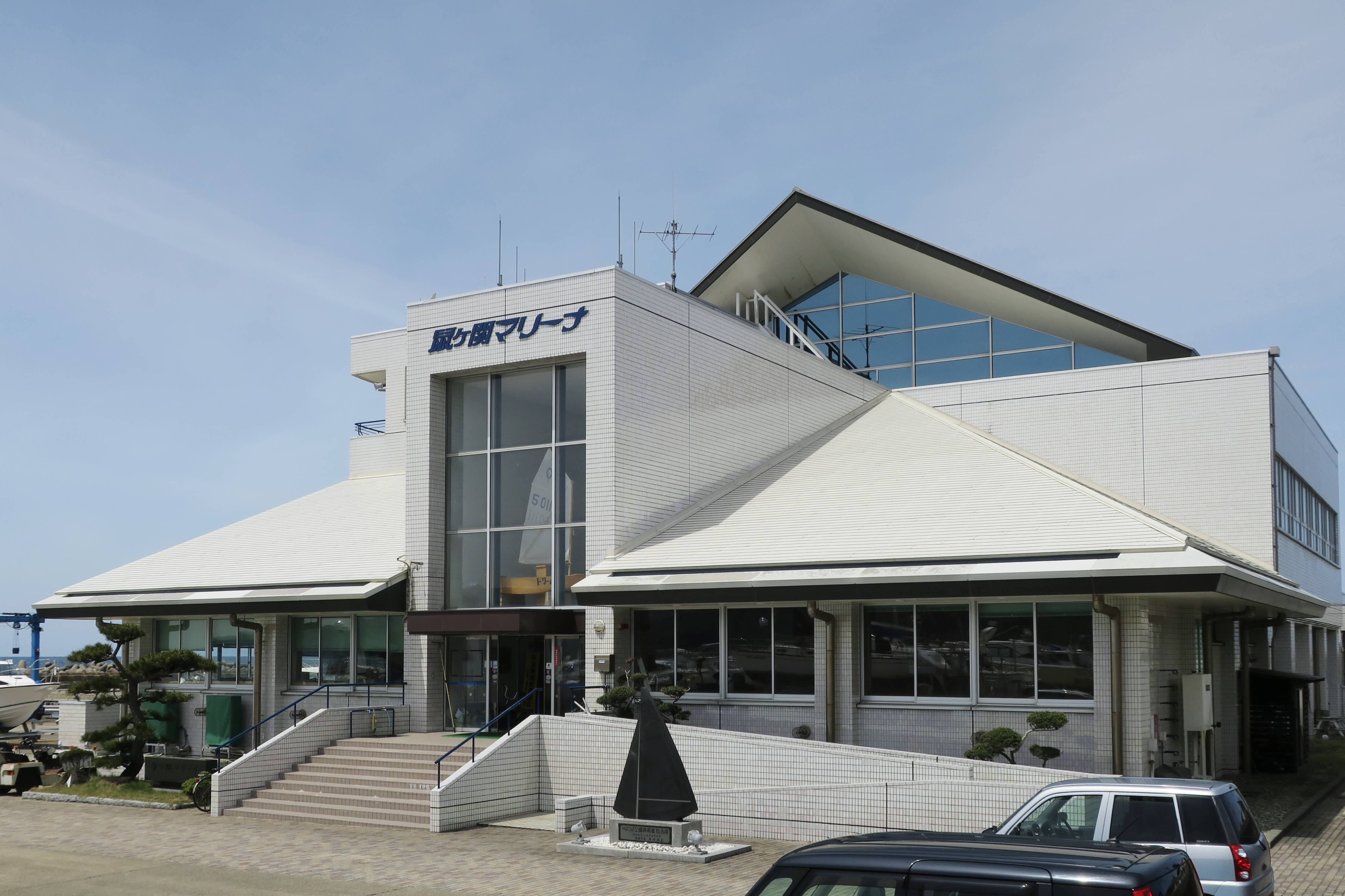 Nezugaseki marina (Tsuruoka, Yamagata).